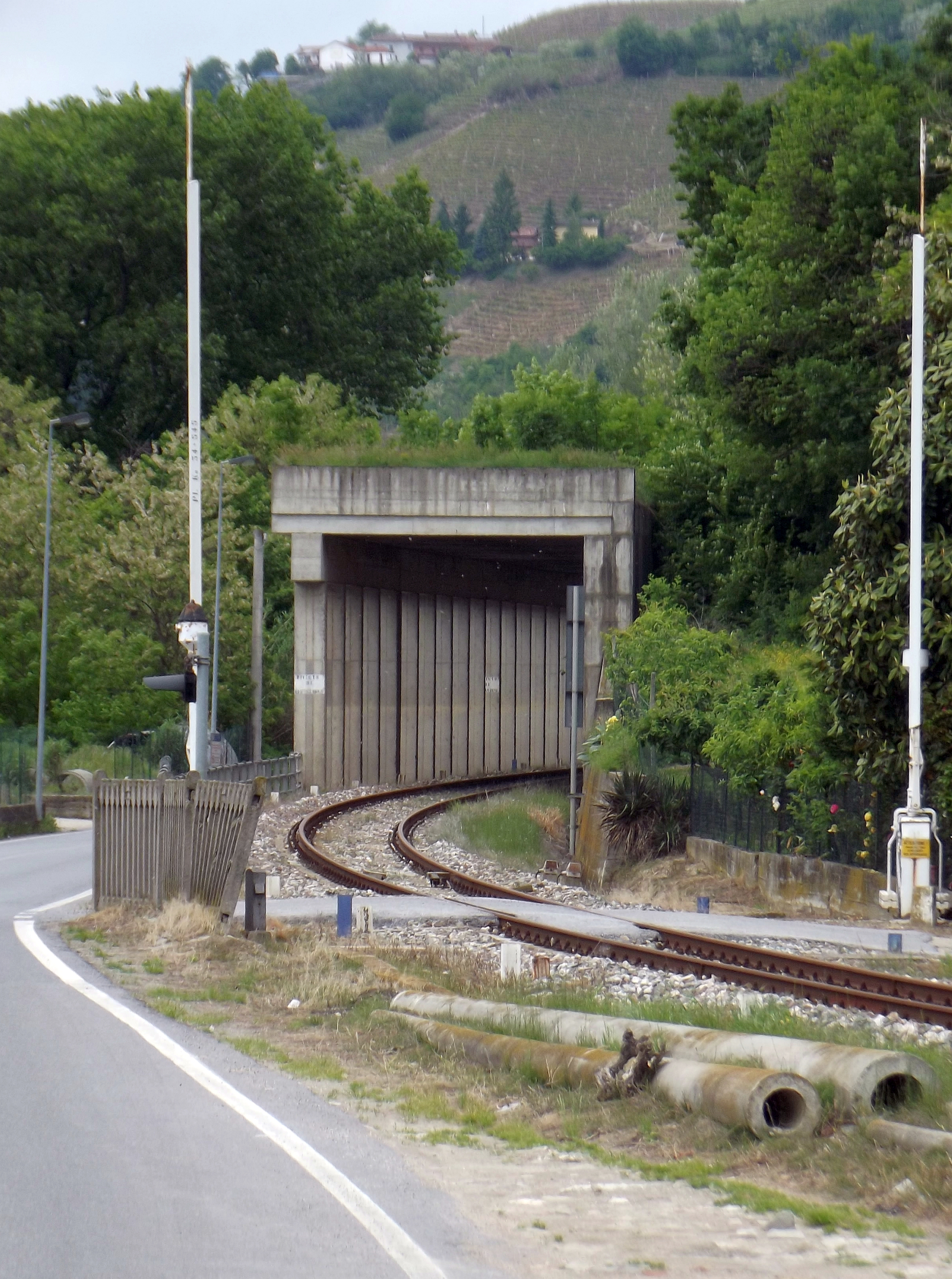 Alessandria–Cavallermaggiore railway neas Santo Stefano Belbo (CN, Italy)